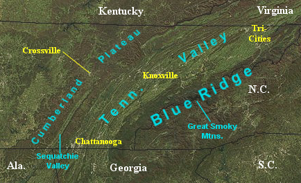 Satellite image showing the major topographical features of East Tennessee.